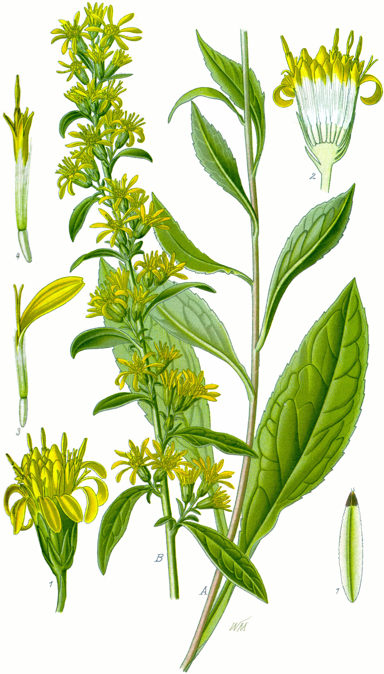 Name Solidago virgaurea Family Asteraceae